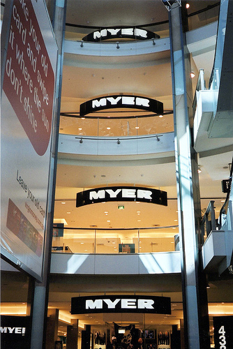 Myer Bondi entrances to Levels 1-4, as seen from Westfield.